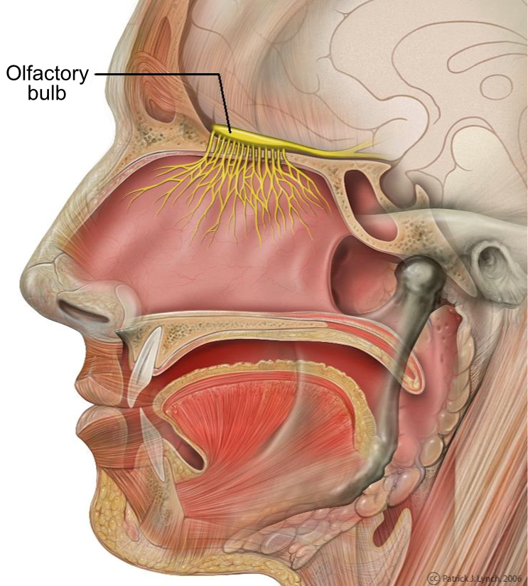 Head anatomy with olfactory nerve. Olfactory bulb labeled in English.